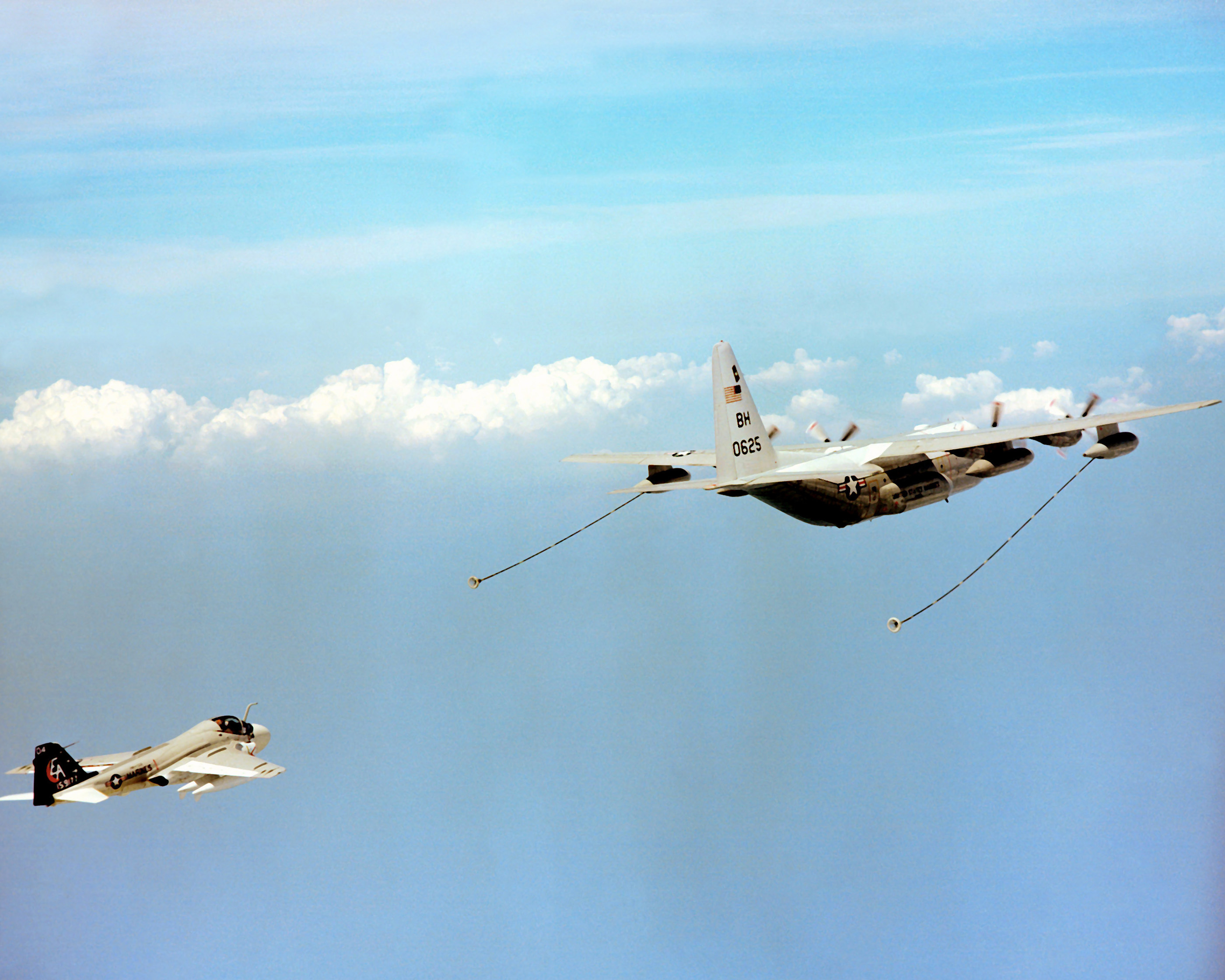 A U.S. Marine Corps Grumman A-6E Intruder (BuNo 159177) from Marine all-weather attack squadron VMA(AW)-332 Moonlighters approaches a Lockheed KC-130R Hercules aircraft (BuNo 160625) from Marine refueler-transport squadron VMGR-252 Otis to take on fuel during a flight out of Marine Corps Air Station, Cherry Point, North Carolina (USA), on 1 December 1978.